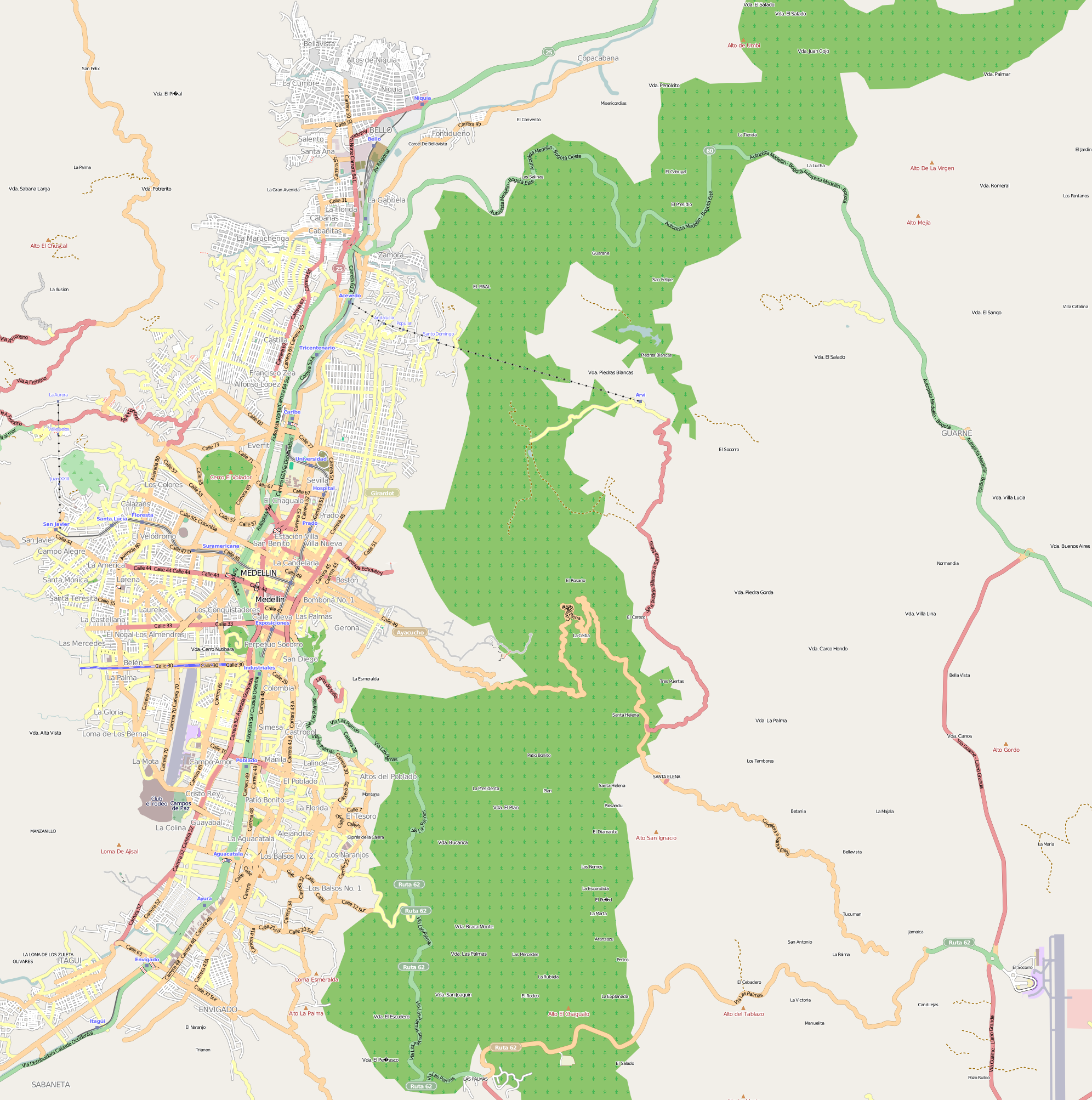 Medellín Location Map Equirectangular projection. Geographic limits of the map: N: 6.3575 N S: 6.1493 S W: -75.6250 W E: -75.417 W